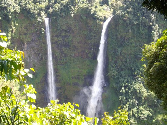 Tad Fan waterfall is situated in the Bolaven Plateau. The water drops about 120m. ລາວ: ຕາດຟານ